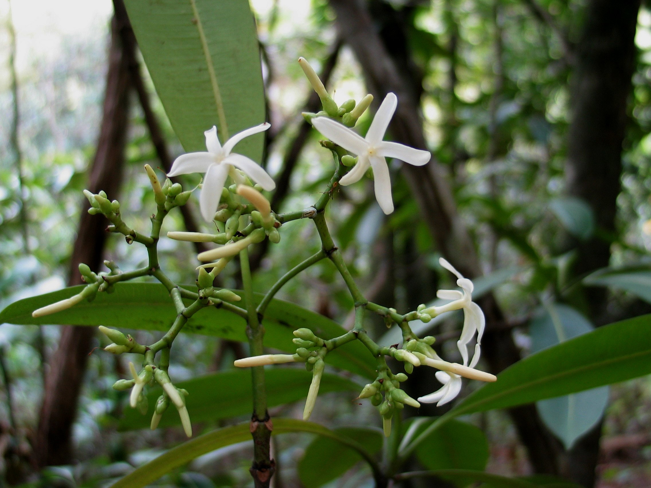 Hōlei Apocynaceae Endemic to the Hawaiian Islands Rare Upper Waimea Valley, Oʻahu Flowers smell like a mild plumeria or frangipani. The nuts were eaten by early Hawaiians and the leaves & stems were used in steam baths. The bark of the stems and roots produced a yellow dye for kapa (tapa).